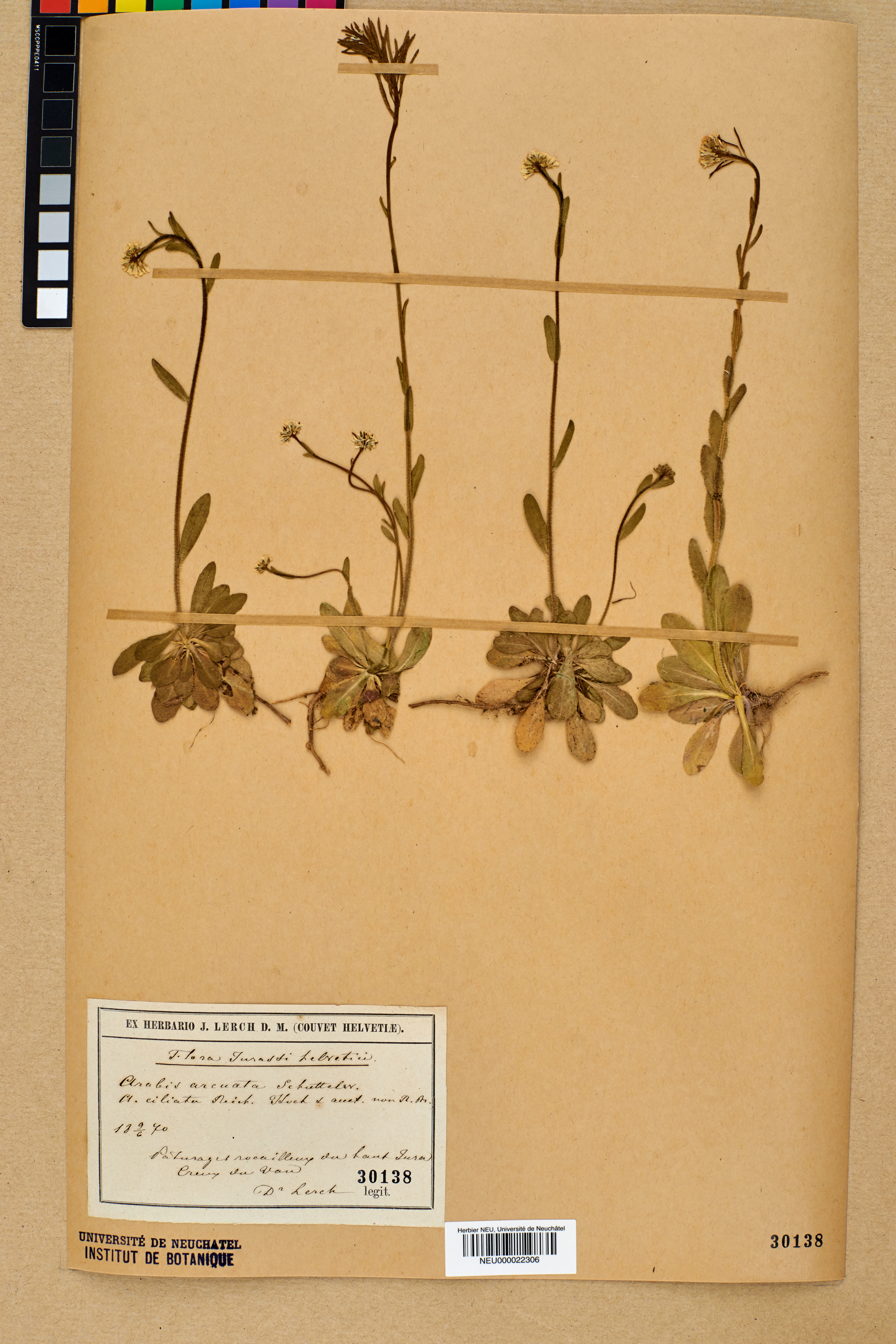 Dried pressed specimen of Arabis ciliata